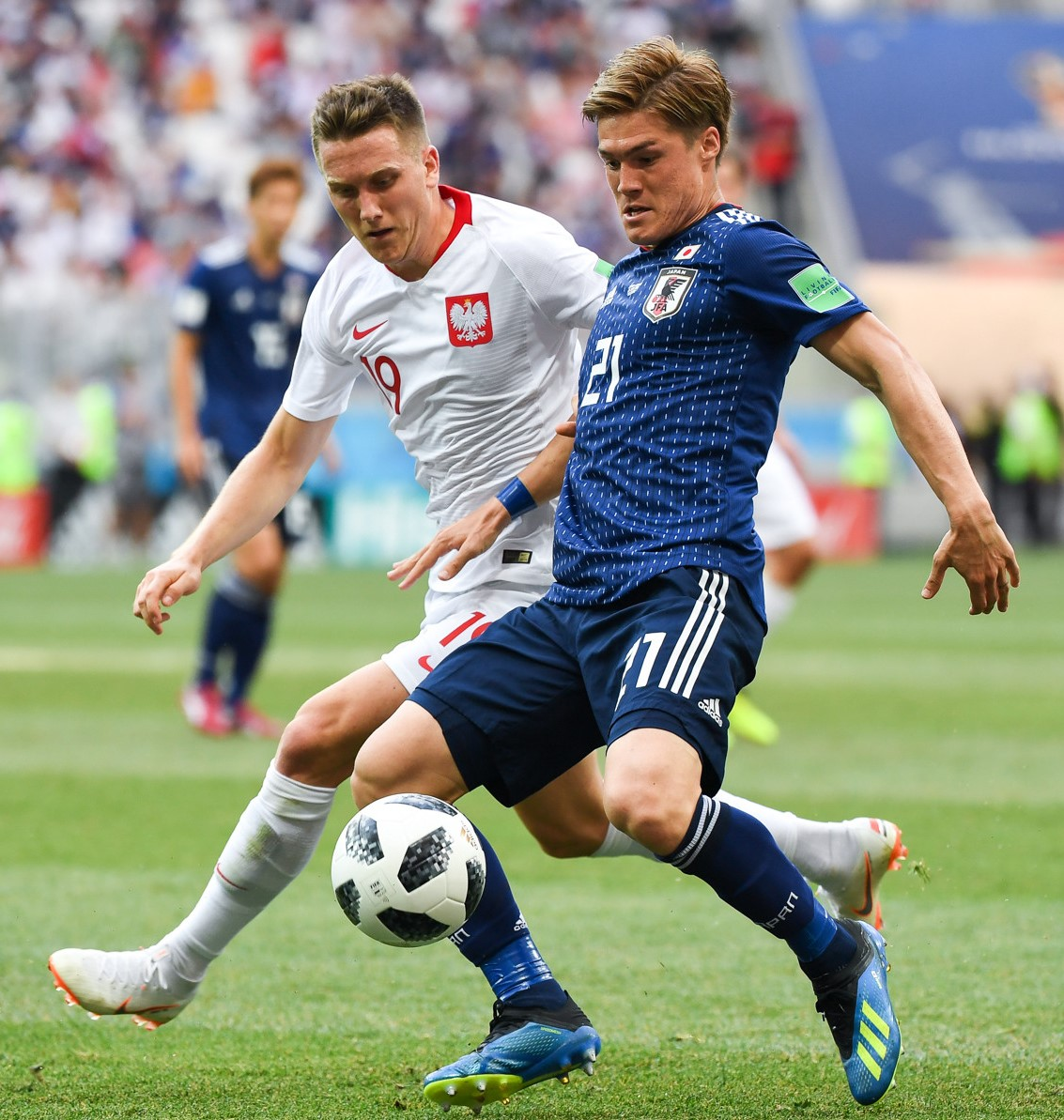 Piotr Zieliński, Gōtoku Sakai